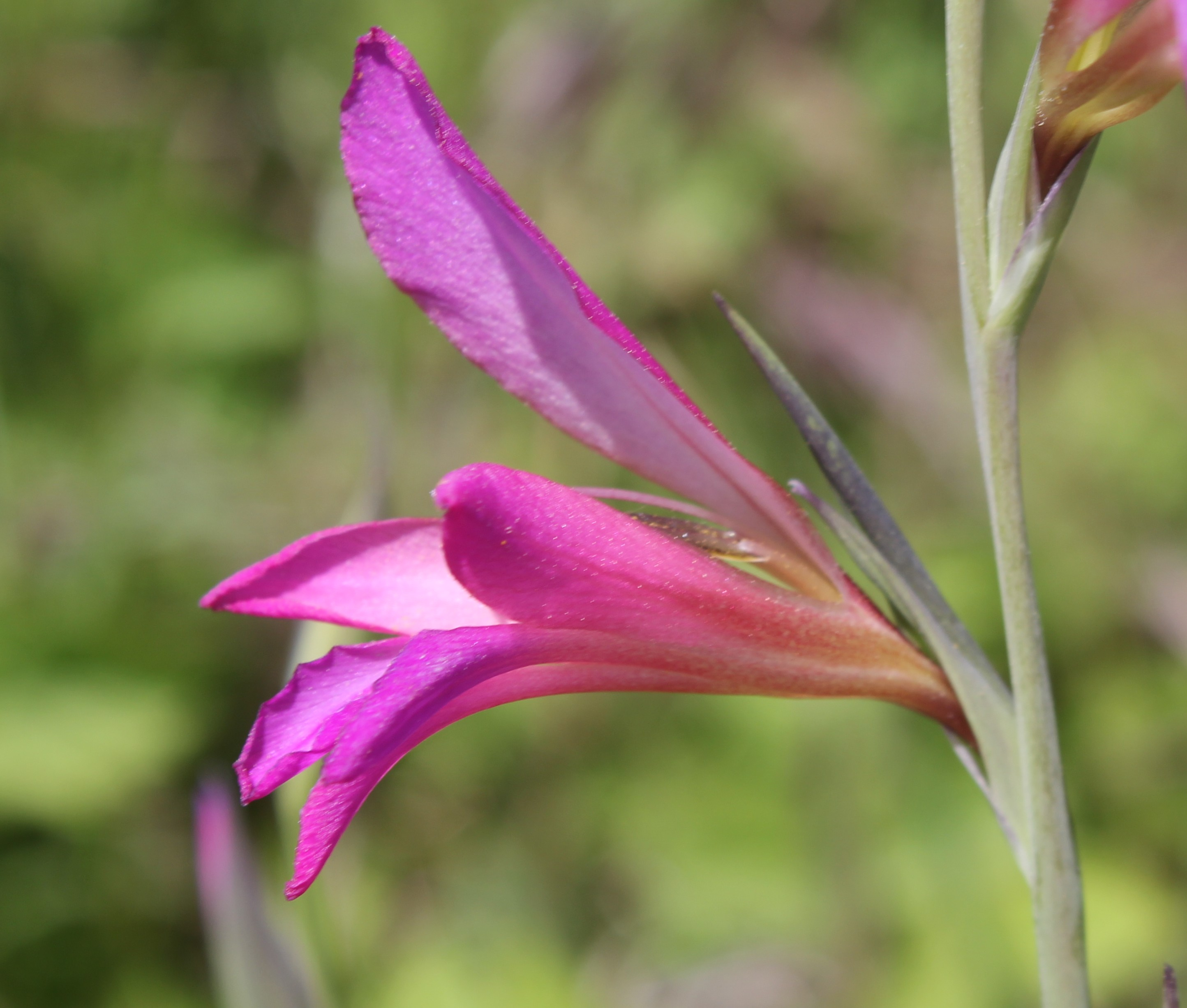 Gladiolus italicus bract